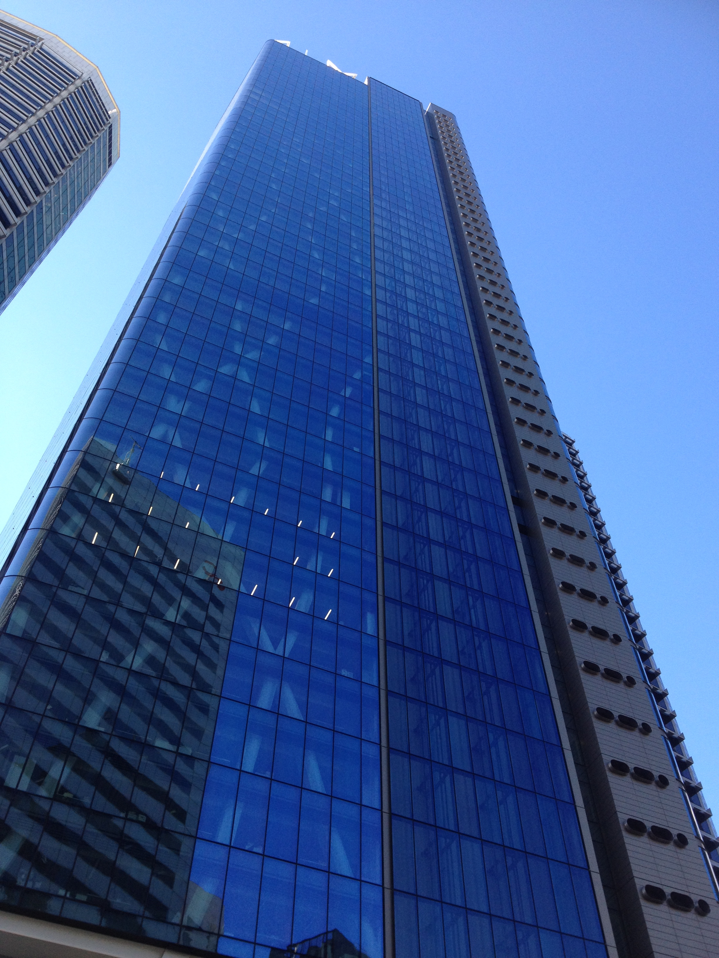 One One One Eagle Street, Eagle Street façade on 2014-07-05